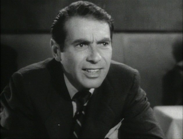 Cropped screenshot of Gary Merrill from All About Eve.